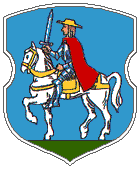 Coat of Arms of Čavusy (historical)